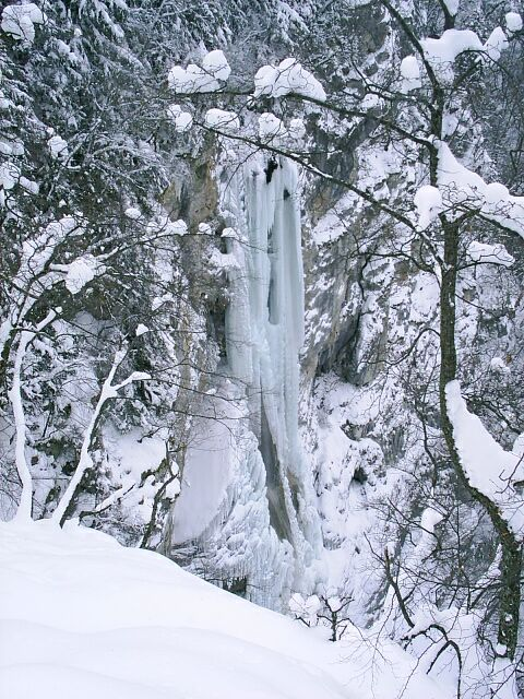 Skakavac waterfall near Sarajevo, BiH